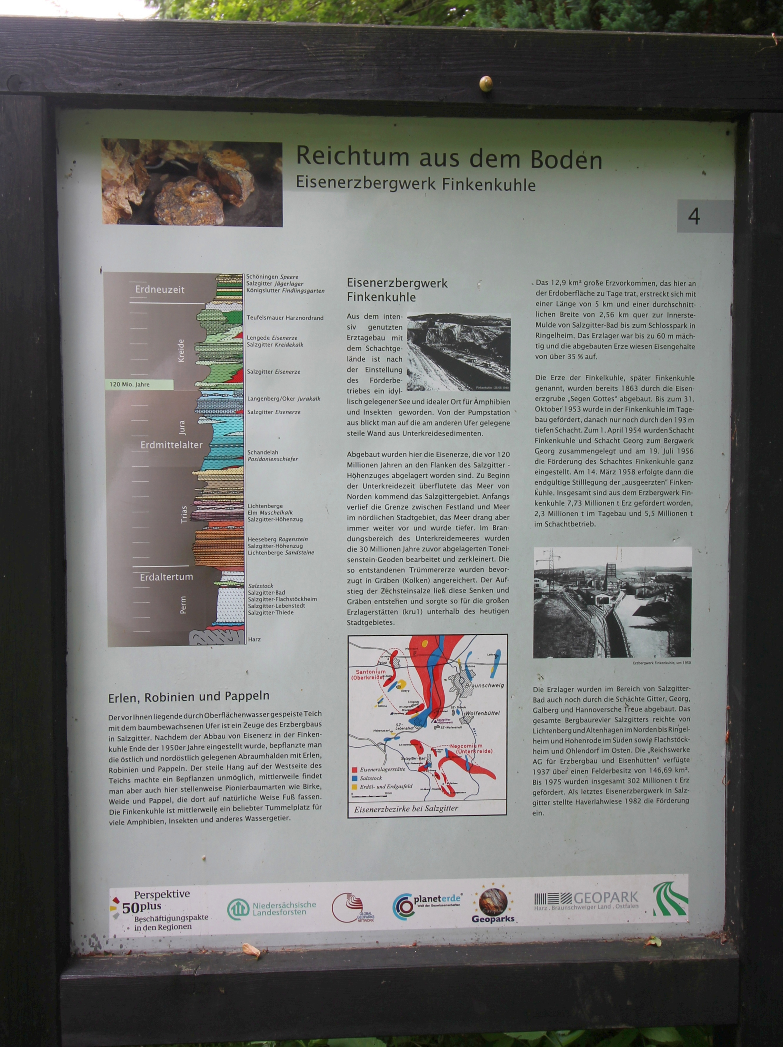 Former iron ore open pit mine "Finkenkuhle". Salzgitter-Bad, Lower Saxony, Germany